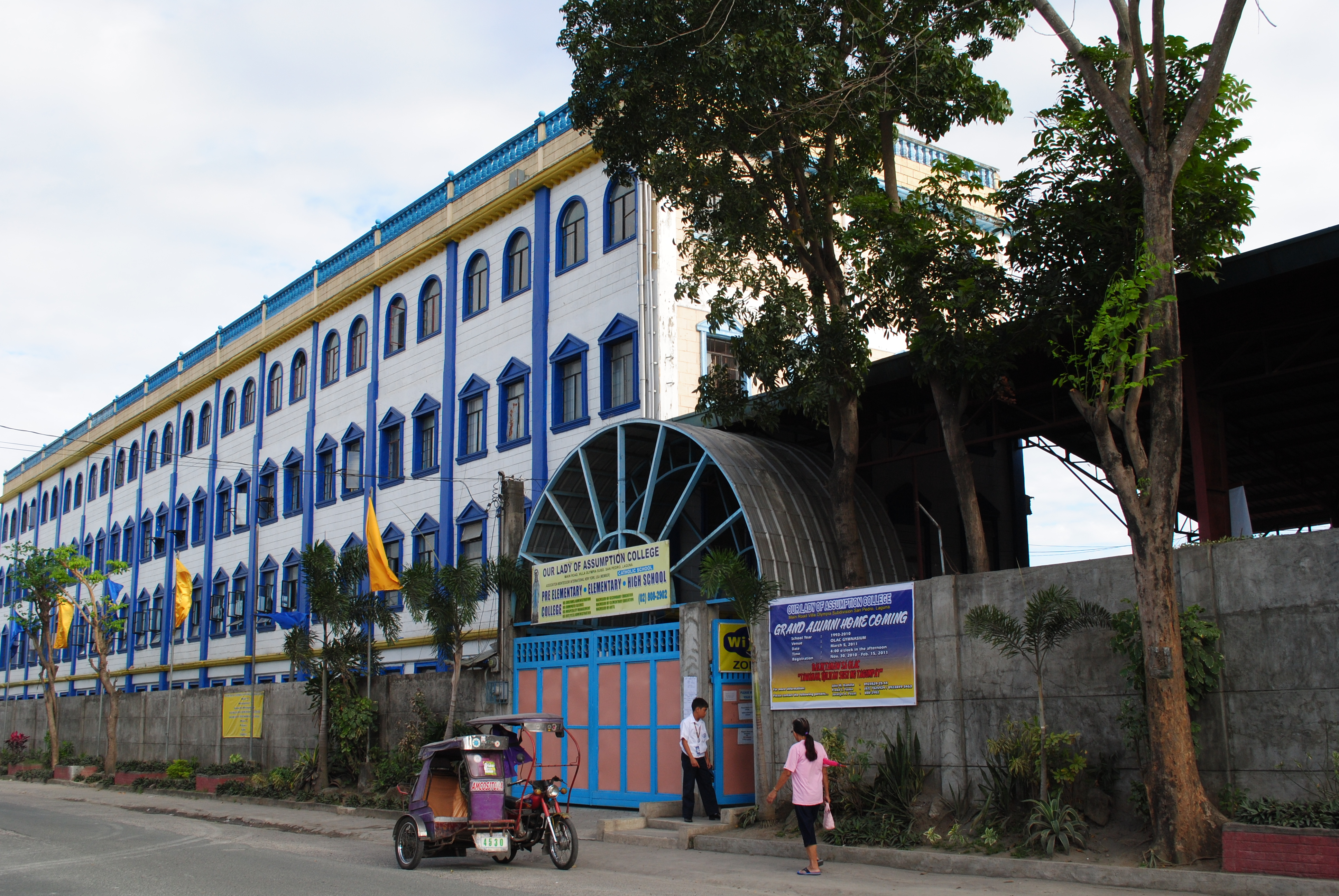 San Pedro Building